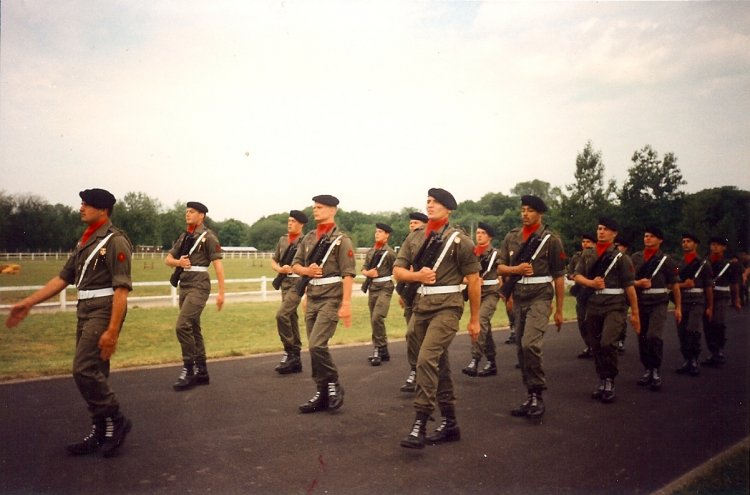 Photo of a battery that scrolls the 3rd artillery regiment Mailly Camp.